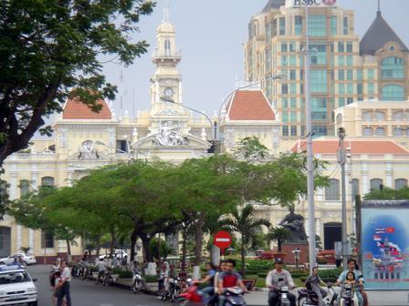 Ho Chi Minh City (Saigon) center, by Andrew Lih Immagine:Russia-Stemma.png